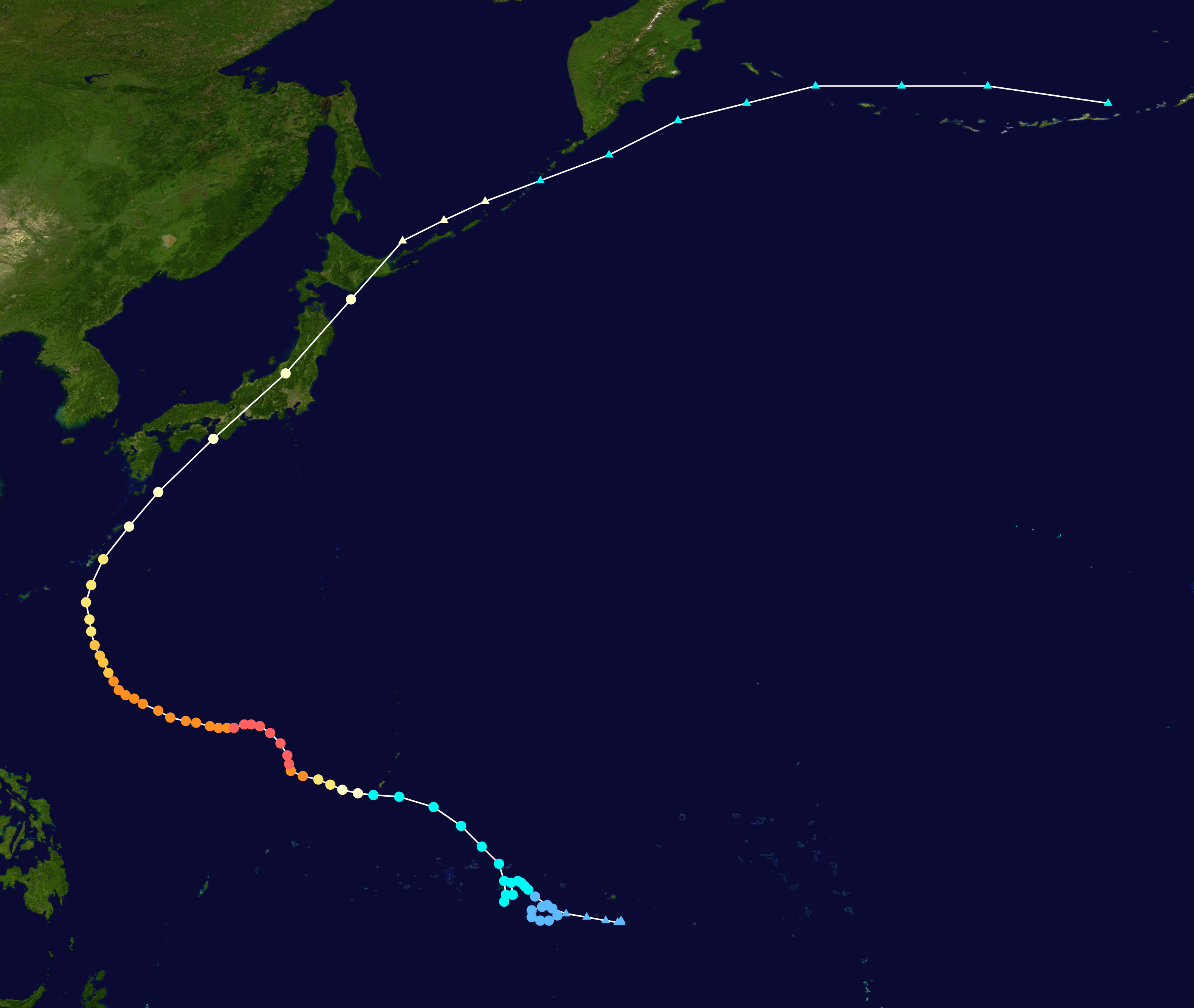 Track map of Typhoon Tip of the 1979 Pacific typhoon season. The points show the location of the storm at 6-hour intervals. The colour represents the storm's maximum sustained wind speeds as classified in the Saffir–Simpson hurricane wind scale (see below), and the shape of the data points represent the nature of the storm, according to the legend below. Saffir–Simpson hurricane wind scale Tropical depression≤38 mph≤62 km/h Category 3111–129 mph178–208 km/h Tropical storm39–73 mph63–118 km/h Category 4130–156 mph209–251 km/h Category 174–95 mph119–153 km/h Category 5≥157 mph≥252 km/h Category 296–110 mph154–177 km/h Unknown Storm typeTropical cycloneSubtropical cycloneExtratropical cyclone / Remnant low / Tropical disturbance